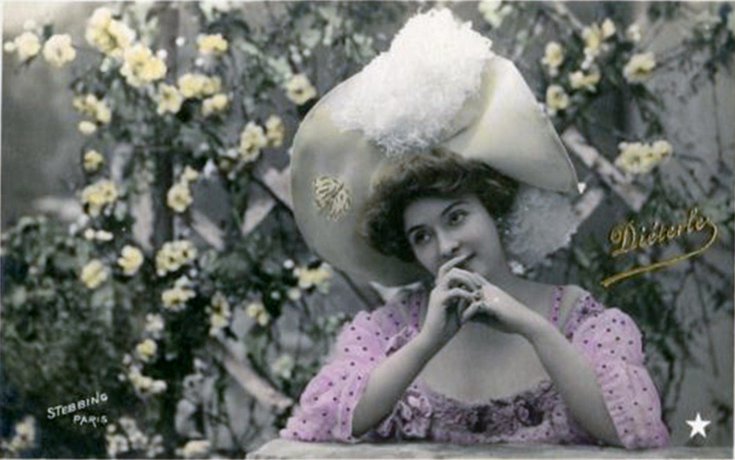 Amélie Diéterle is a French actress born in Strasbourg on February 20, 1871 and died in Cannes on January 20, 1941. She was legitimated in Paris in 1892 by Captain Louis Laurent, Knight of the Legion of Honor. Amélie Diéterle married in Vallauris on June 16th, 1930 with André Simon (1877-1965). Amélie Diéterle plays mainly at the Théâtre des Variétés in Paris during the Belle Époque.